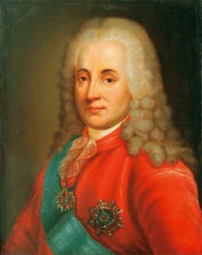 Prince Dmitriy Mikhaylovich Golitsyn (1665-1737)